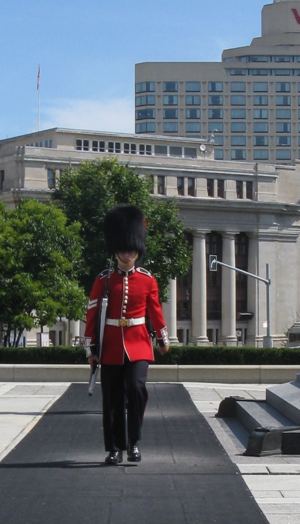 A ceremonial guard marches by the Tomb of the Unknown Soldier at the National War Memorial in Ottawa, Canada.